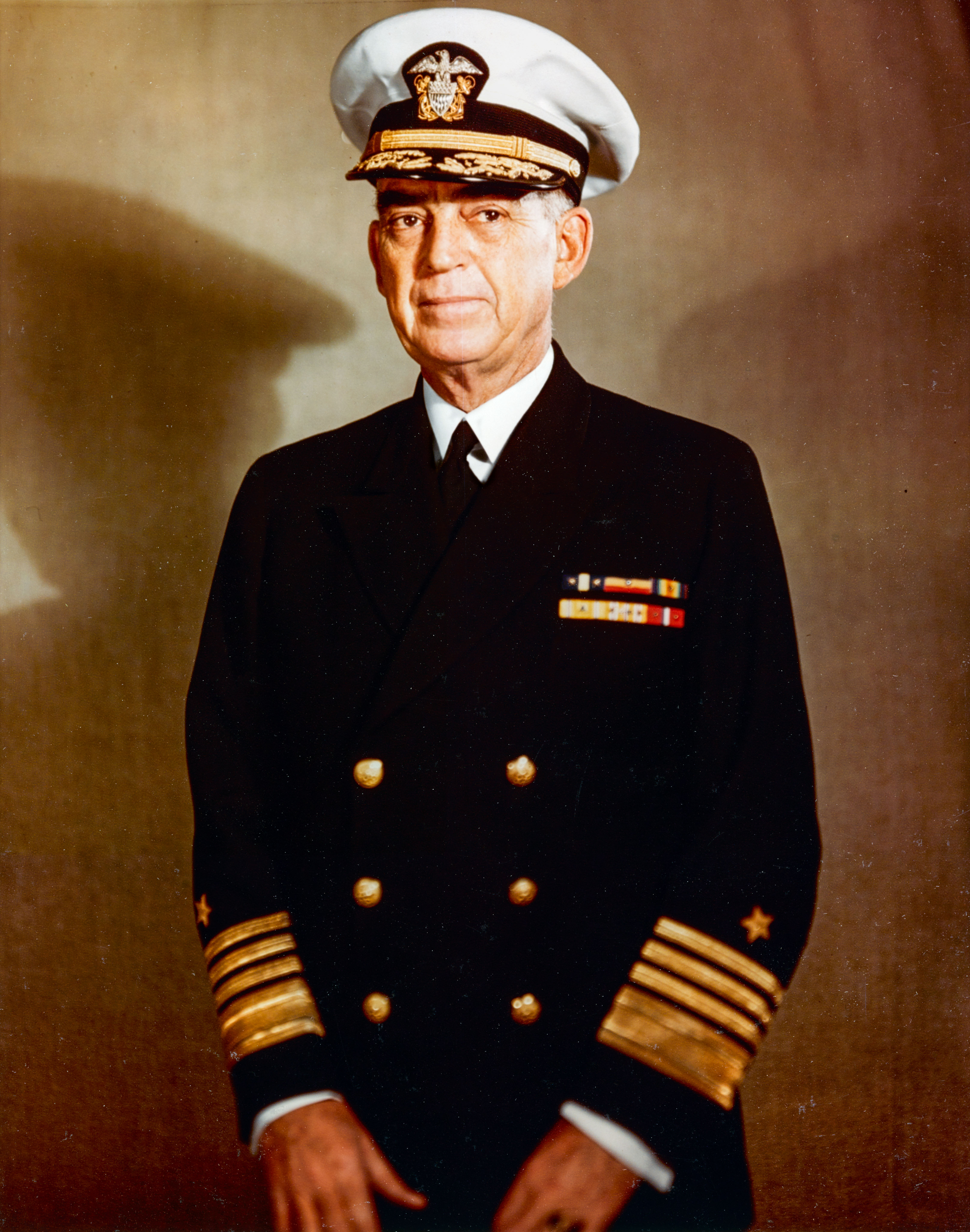 Thomas C. Kinkaid; Photo #: NH 80-G-K-2749 Vice Admiral Thomas C. Kinkaid, USN, Commander Seventh Fleet U.S. Naval Historical Center Photograph. Removed caption read: Photo # NH 80-G-K-2749 Admiral Thomas C. Kinkaid